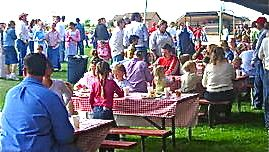 Streamline1989 03:16, 27 December 2006 (UTC)